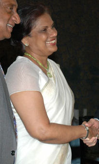 Former President of Sri Lanka Chandrika Kumaratunga